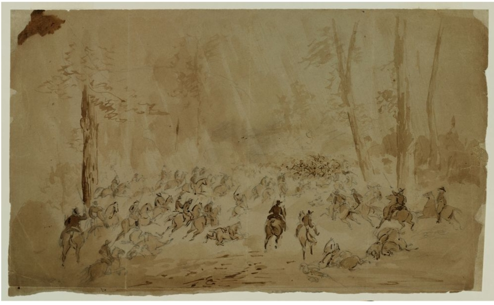 Charge of the 92nd Illinois Mounted Infantry Division near Kingston, Georgia, under Colonel Atkinson, June 23, 1864